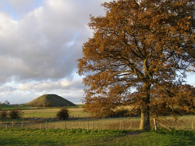 Autumnal oak near Swallowhead Springs On the right an oak tree alongside the path from the A4 road layby to West Kennett long barrow, close to Swallowhead Springs. On the left in the distance is Silbury Hill, the largest prehistoric mound in Europe.